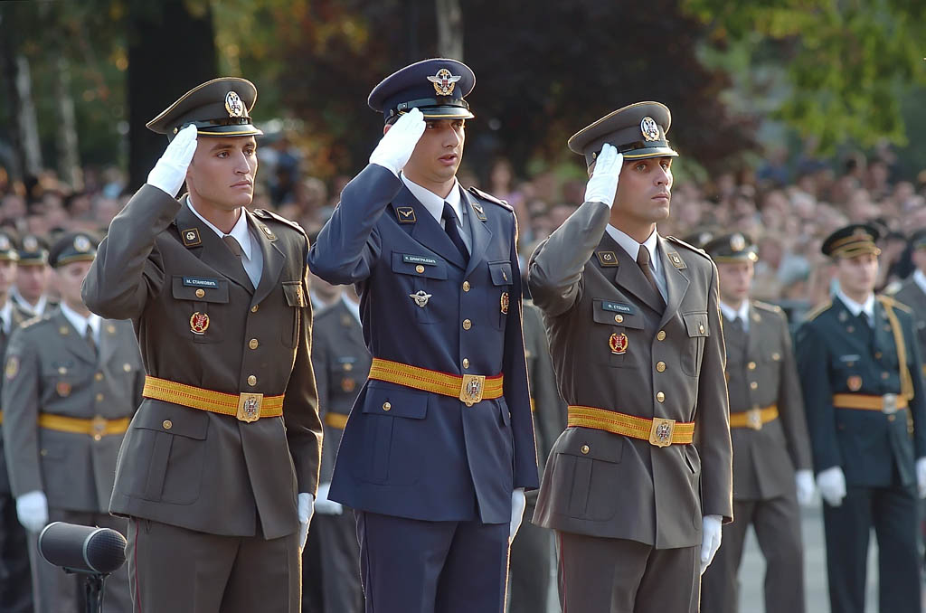 Promotion of new officers 2009